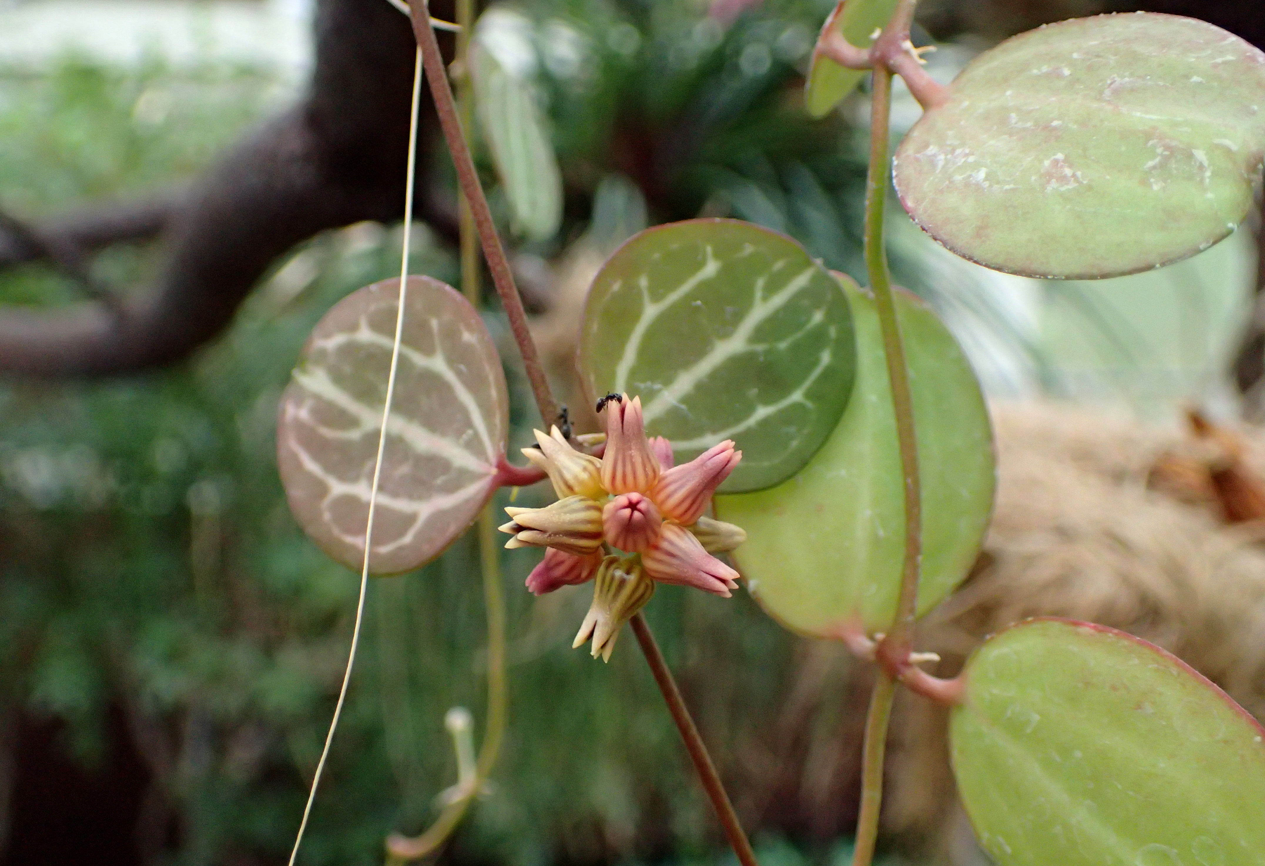 Dischidia ovata at Garfield Park Conservatory